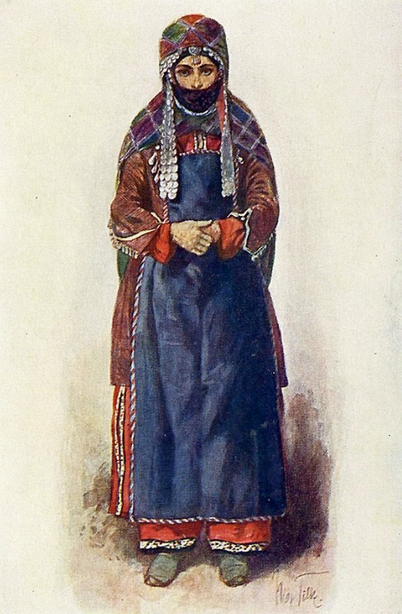 Udi woman